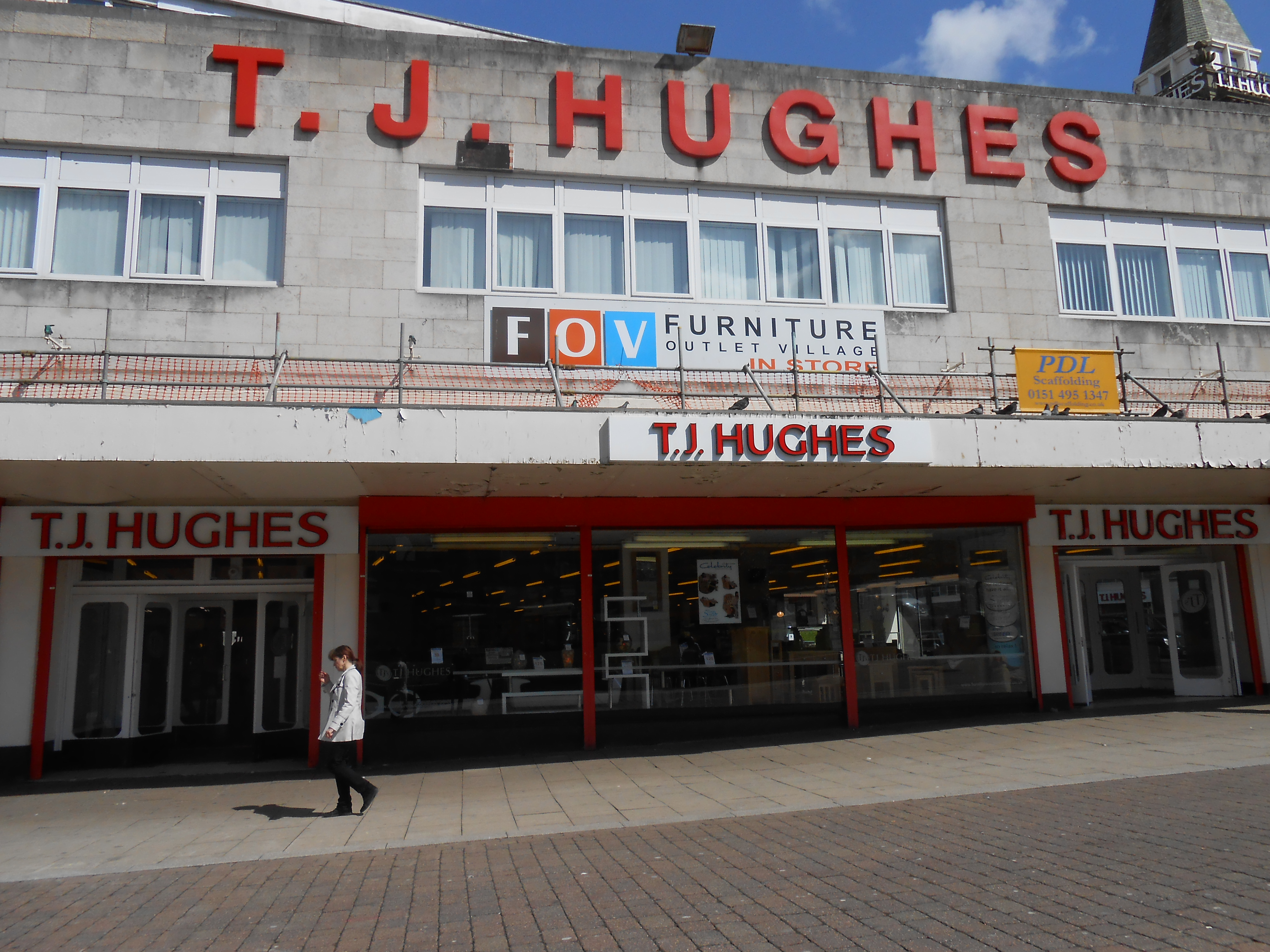 T.J. Hughes store, London Road, Liverpool, England.